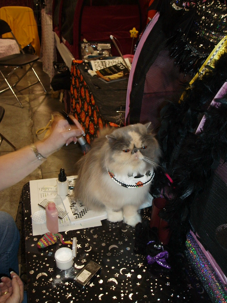 note the cute little Halloween collar ;-)